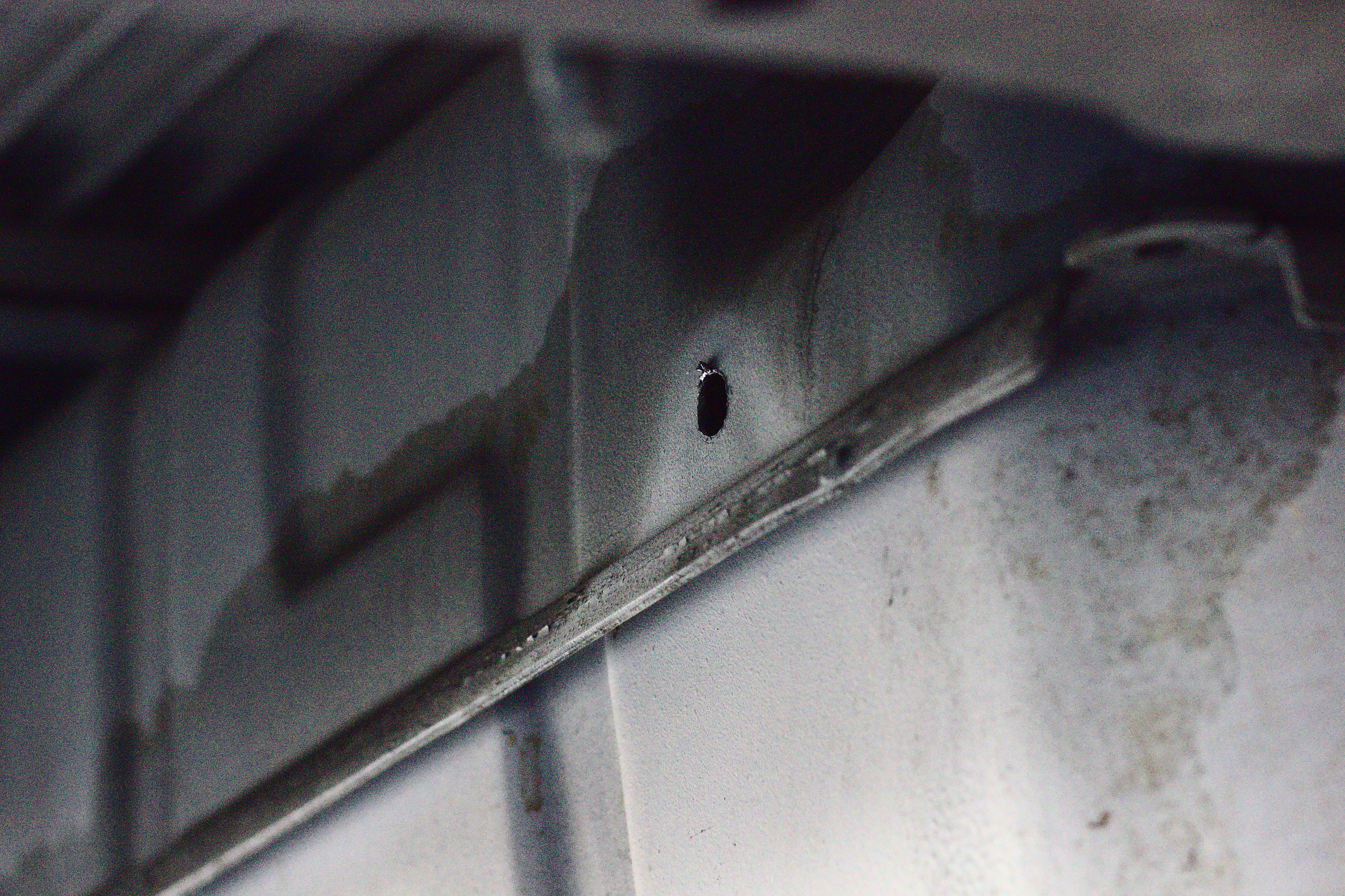 The gas tank of a 15-foot U-Haul truck with a drill hole that was likely used to siphon the gasoline. The truck was outfitted with an anti-siphoning device, so the gasoline could not be siphoned directly from the filler spout.